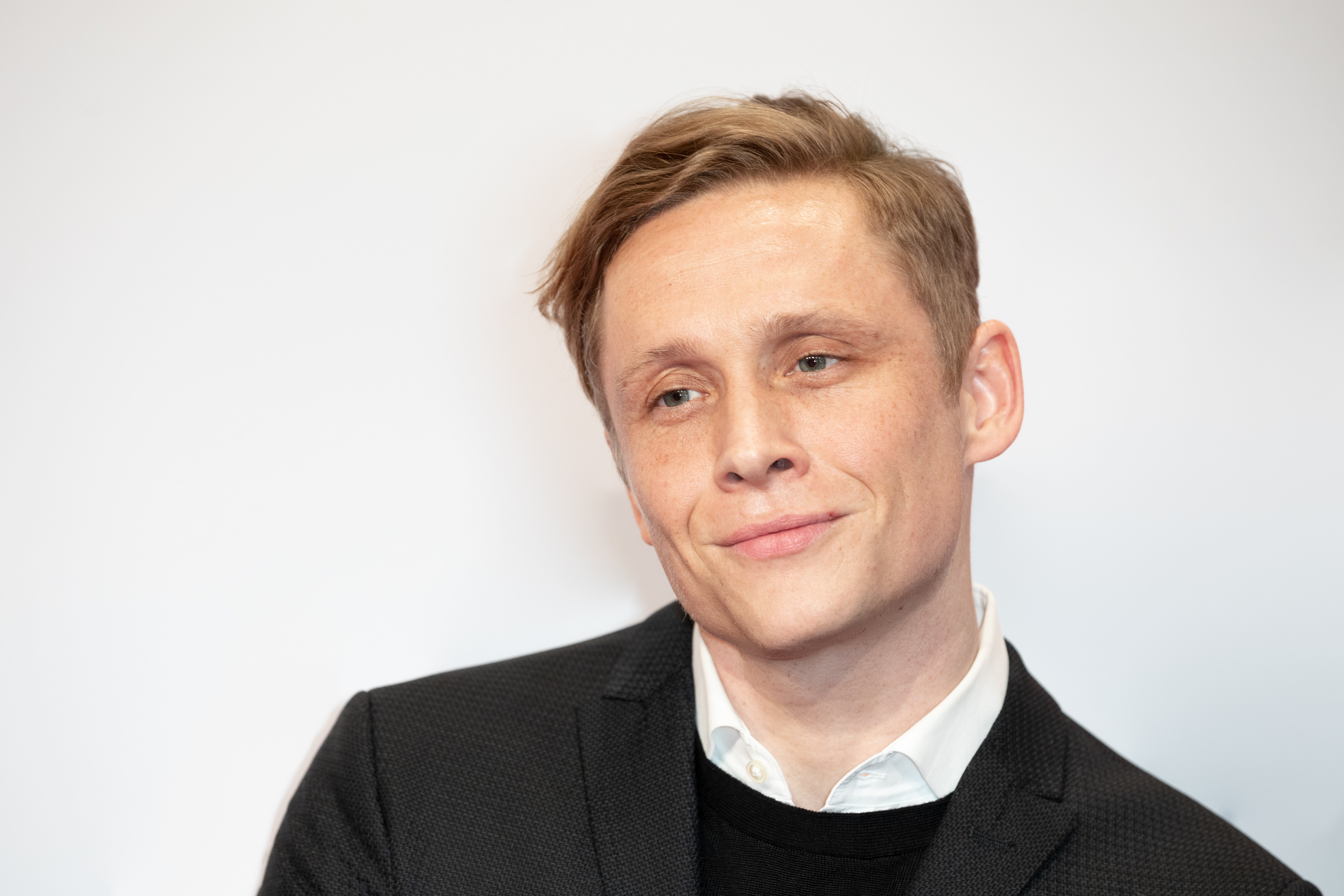 Matthias Schweighöfer at the Medienboard Party on the occasion of the 69th Berlinale in Ritz-Carlton, Potsdamer Platz